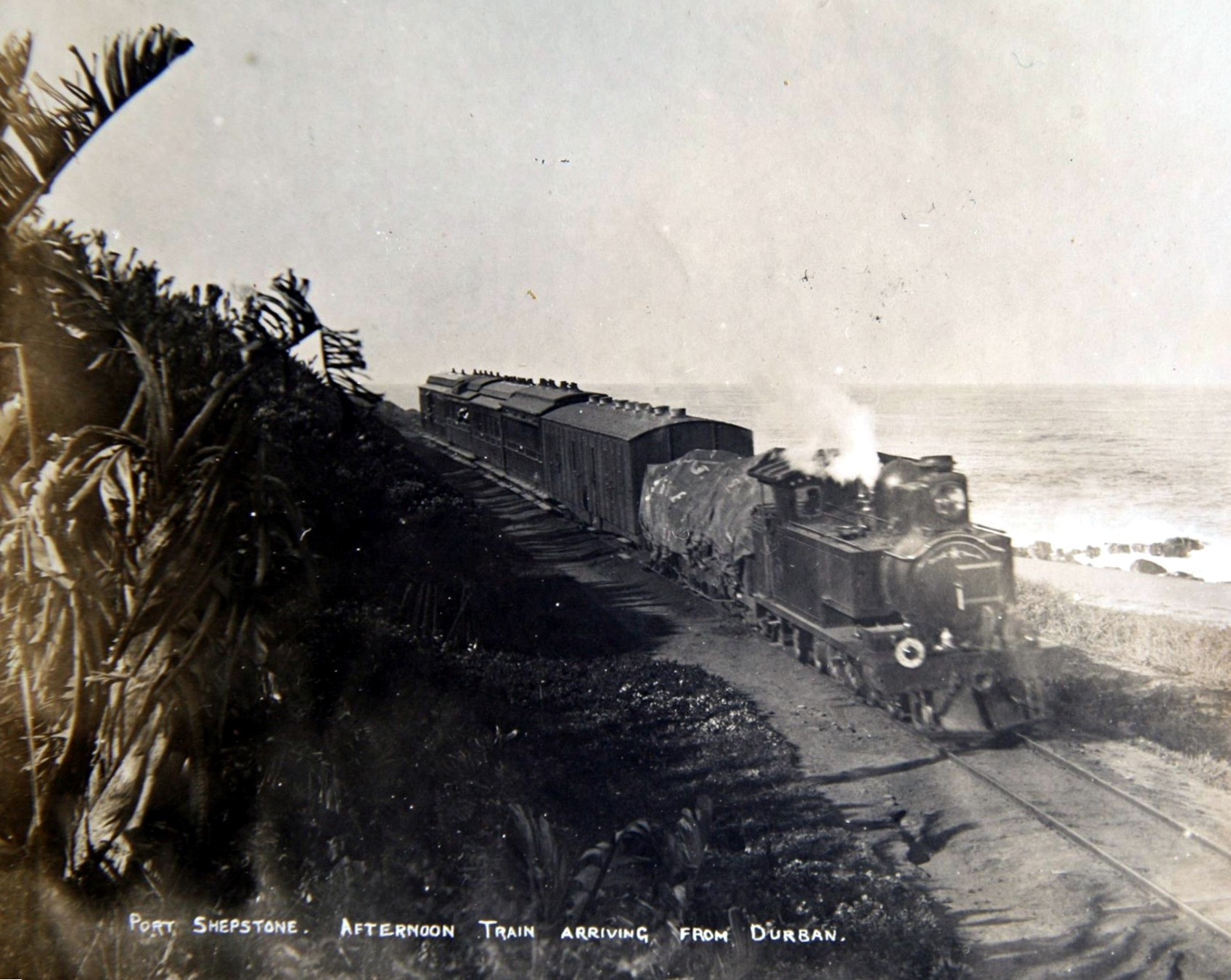 NGR Class H 4-6-4T no. 39, later SAR Class C2 no. 86, arriving at Port Shepstone with the afternoon train from Durban, Natal